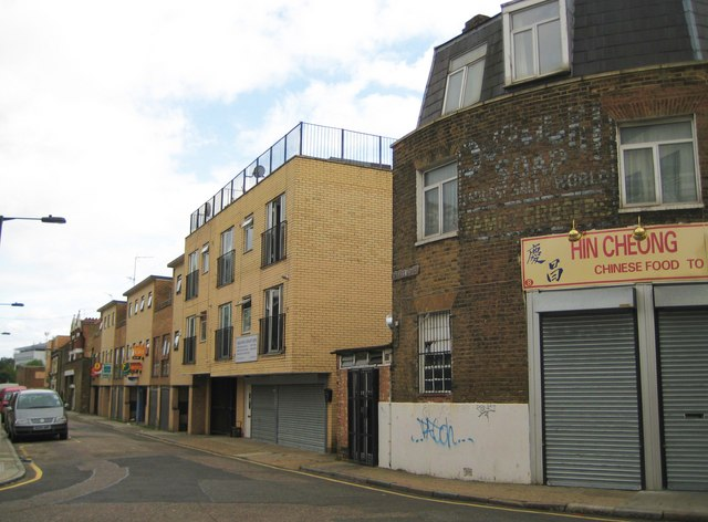 Poplar: Follett Street, E14 (1) The changing demographics of the East End are visible here. High up on the building on the right is an advert that I can't quite completely decipher, but seems to be advising that the family grocers previously resident there used to have the largest sale of a certain brand of soap in the world. Their shop is now Hin Cheong's Chinese takeaway, while the building with the buff bricks is in use as a Somali community centre.